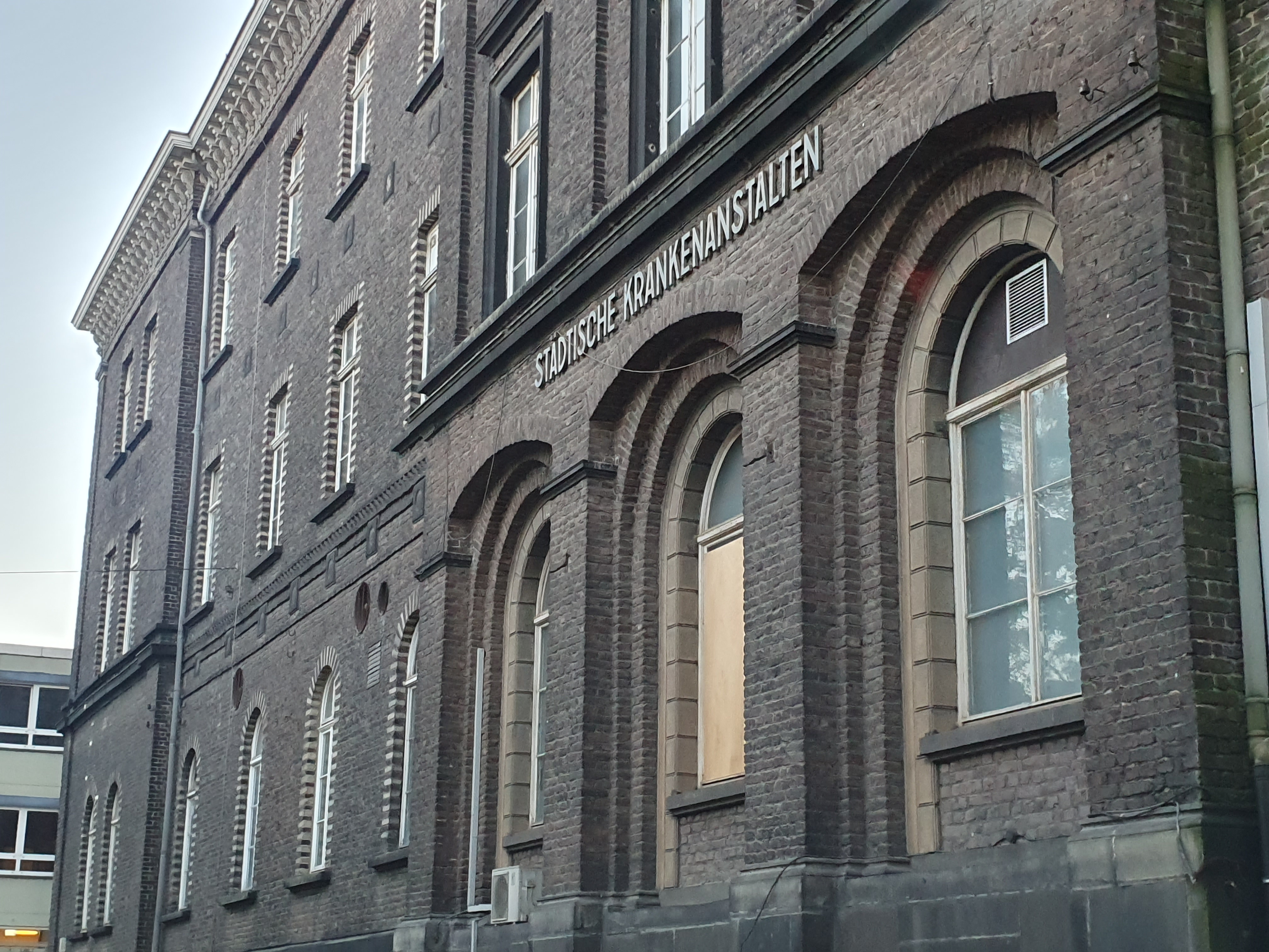 Helios Hospital, Krefeld, Germany. Building 7 showing old title of municipal hospital.